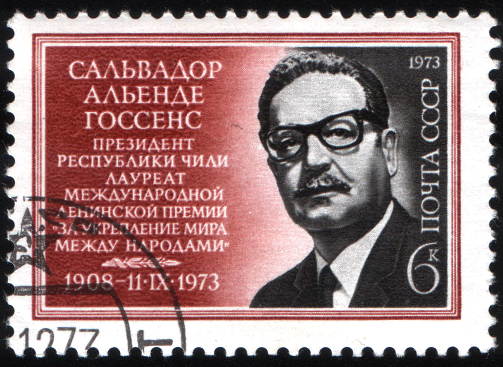 Stamp of the Soviet Union, Salvador Allende, 1973, 6 kopecks.